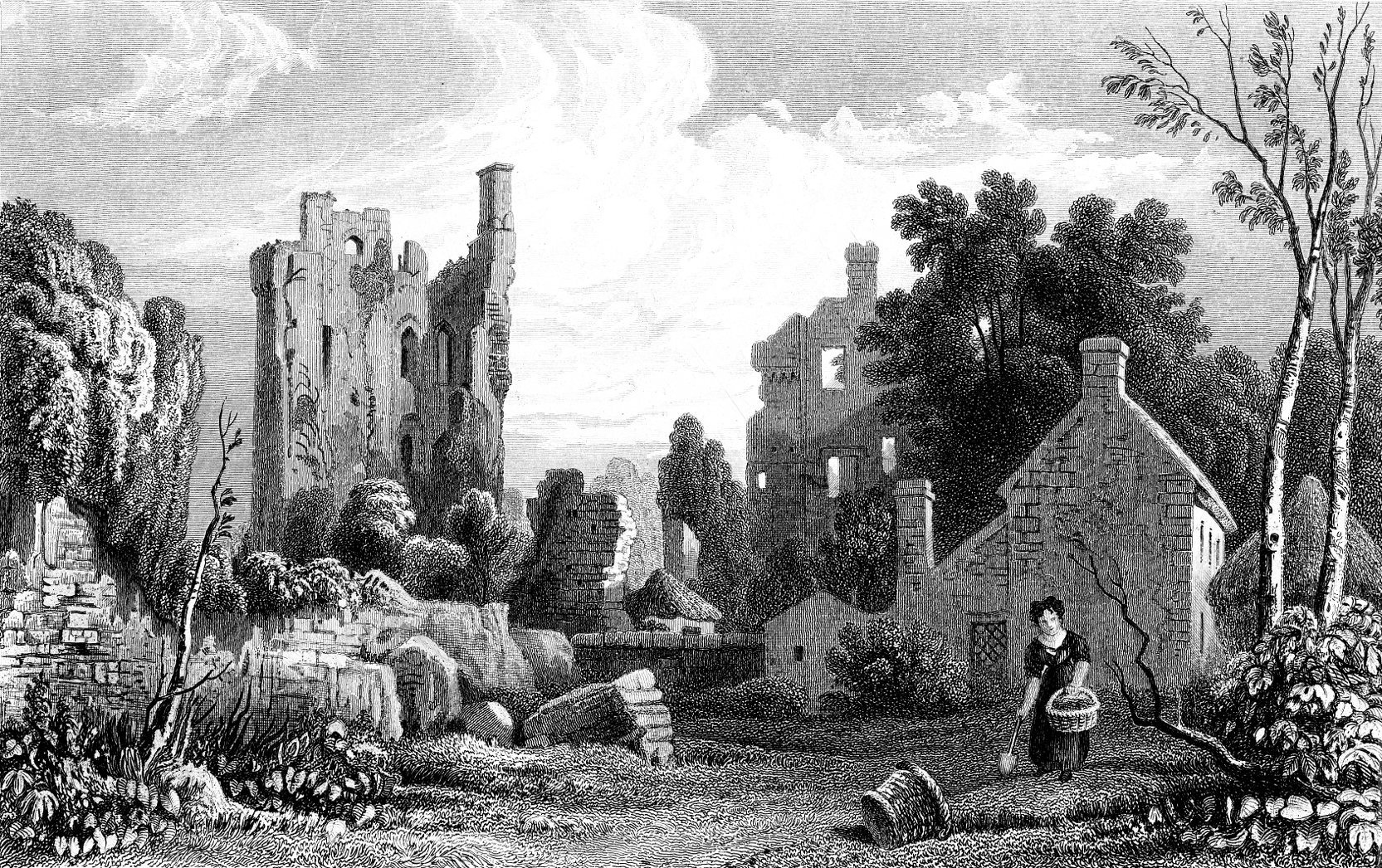 Engraving of Coity Castle